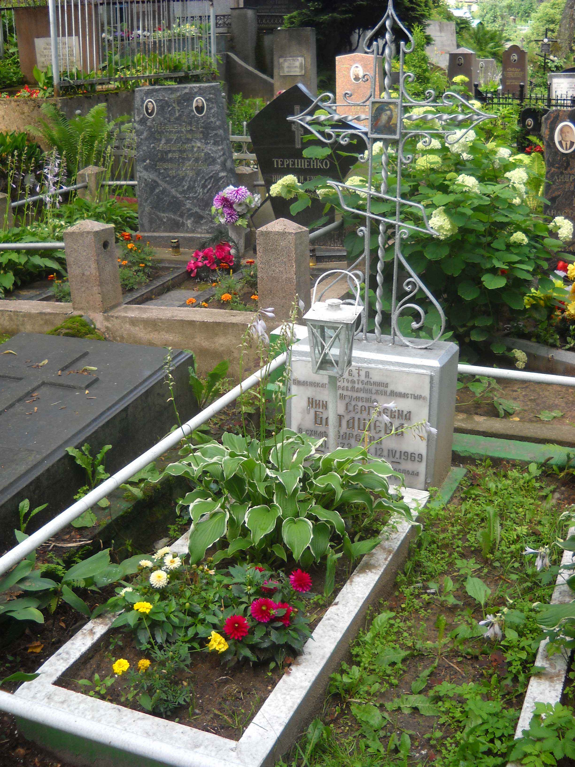 Grave of Nina (Batashova), abbess of St. Mary Magdalene Monastery in Vilnius